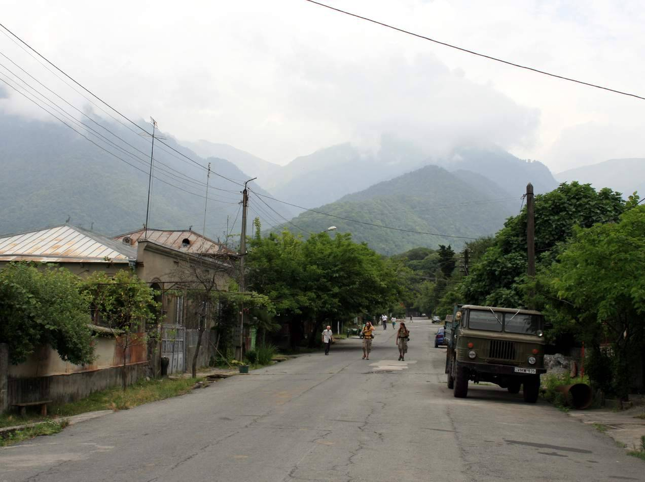 Lagodekhi, Vashlovanskaya street leading to Lagodekhi National Park.